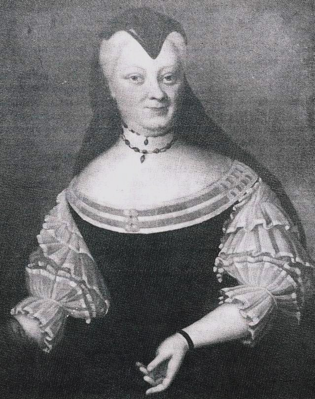 Louise Françoise Phélypeaux, countess of Plelo (1707-1737), widow of the ambassador count of Plelo.